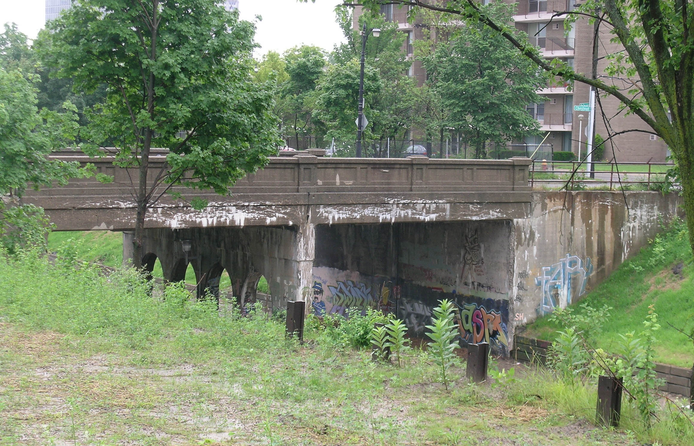 Chestnut Street bridge over old Grand Trunk Railroad tracks, Detroit MI